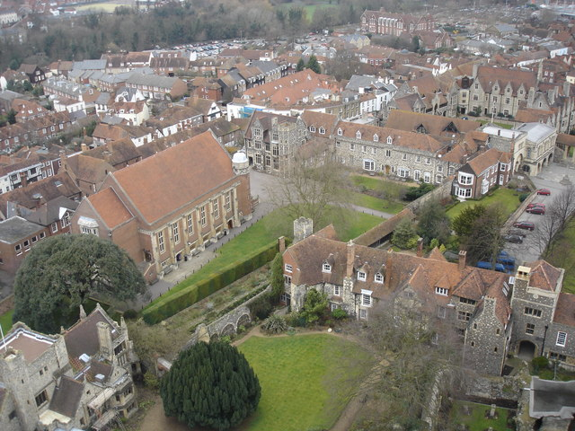 View to NW from Bell Harry Tower of Canterbury Cathedral. The view shows the back garden of The Archdeacon of Canterbury's house, (where the mulberry bush from the nursery rhymne is supposed to still be), Shirley Hall and further towards Kingsmead School.